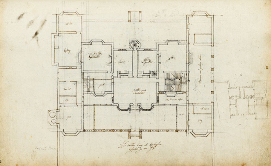 Architectural plan of Holland House by John Thorpe in 1605. The caption reads "Sir Walter Coapes at Kensington, perfected per me I. T." The original document is held by Sir John Soane's Museum in London.